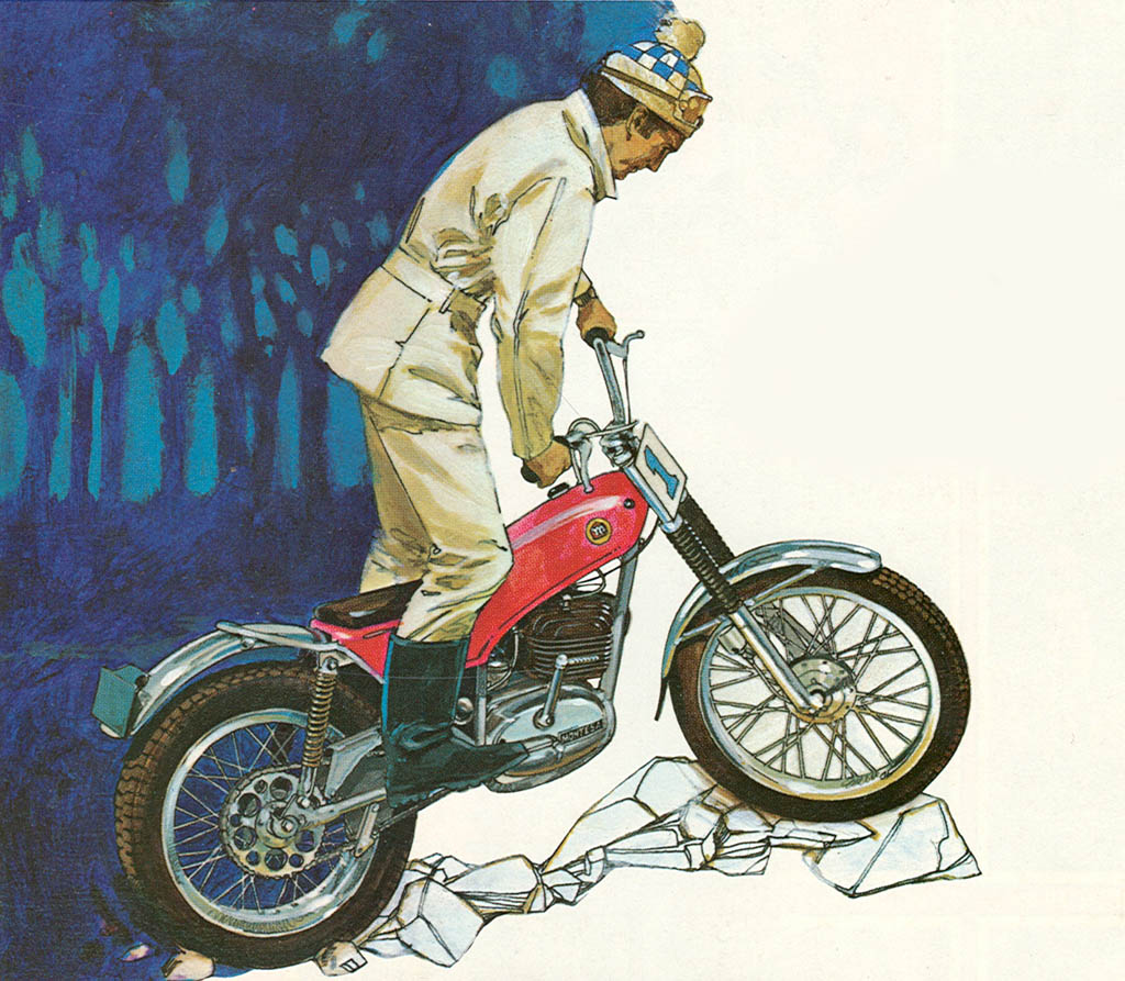 Taken from a Montesa Cota 247 ad (circa 1969). The racer is Pere Pi.